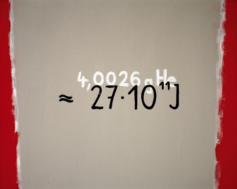 Painting